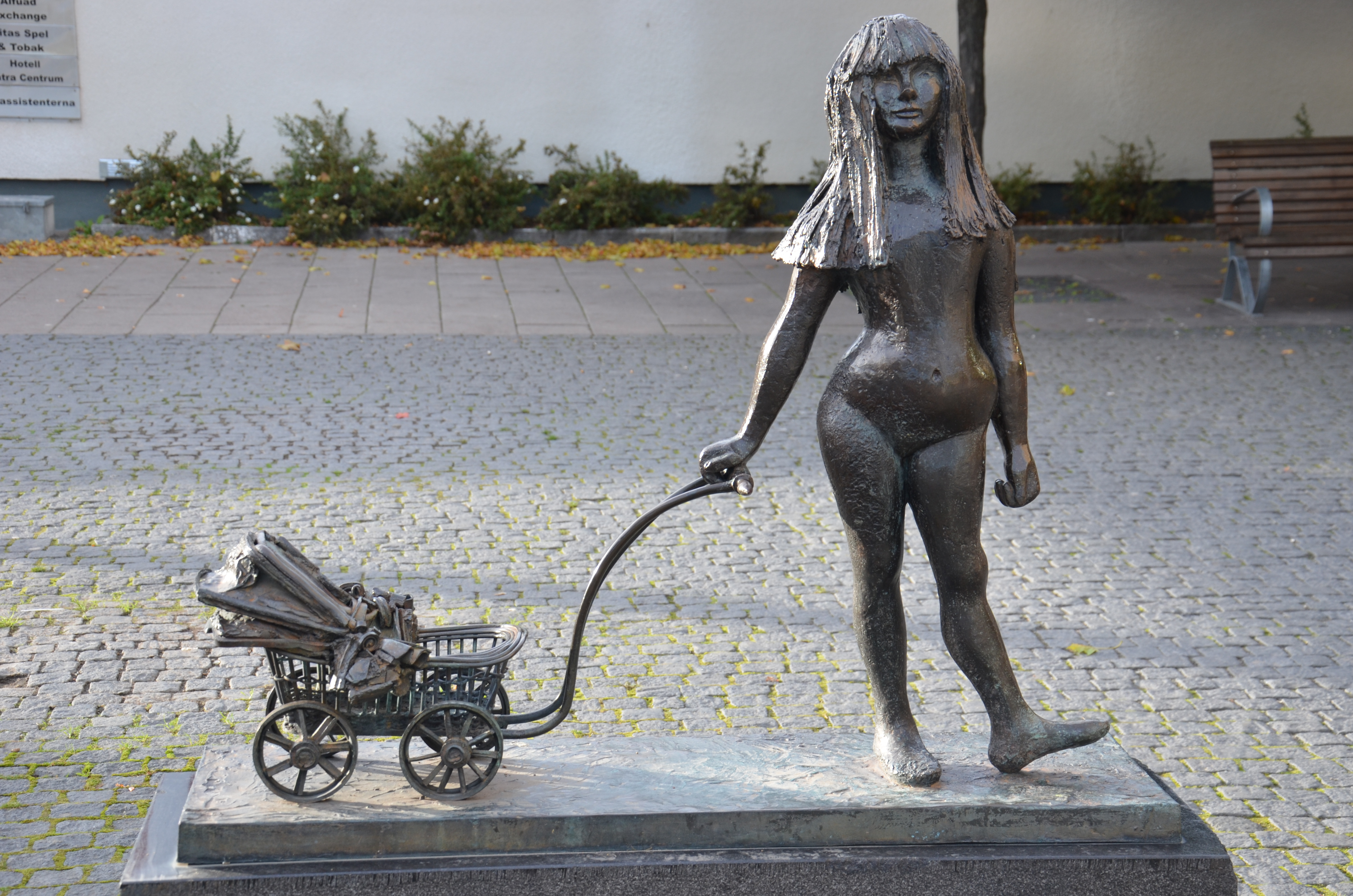 Barnvagnen, bons, av Gunnel Frieberg, utanför Sätras tunnelbanestation